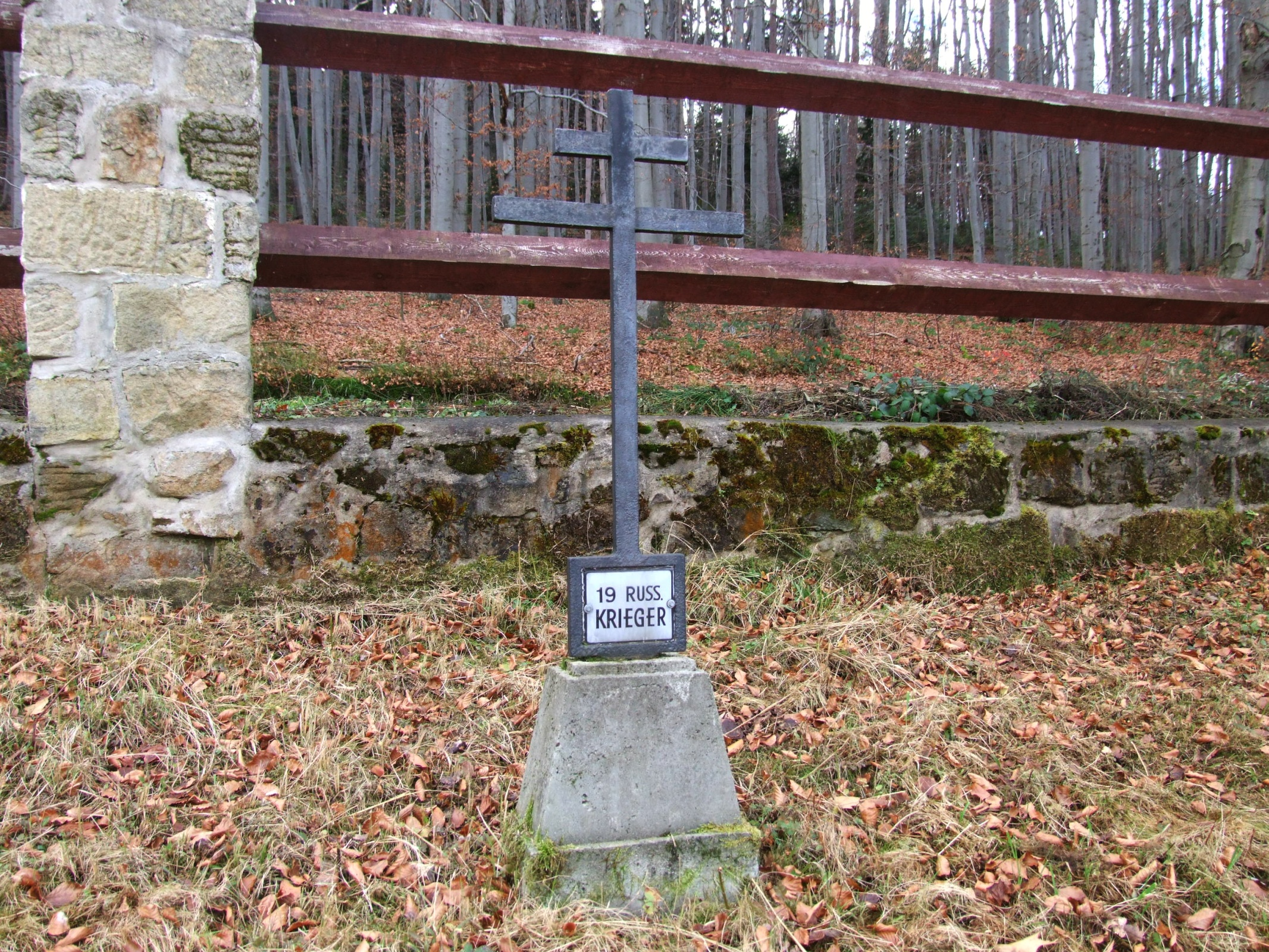 World War I Cemetery nr 300 in Rajbrot-Kobyła